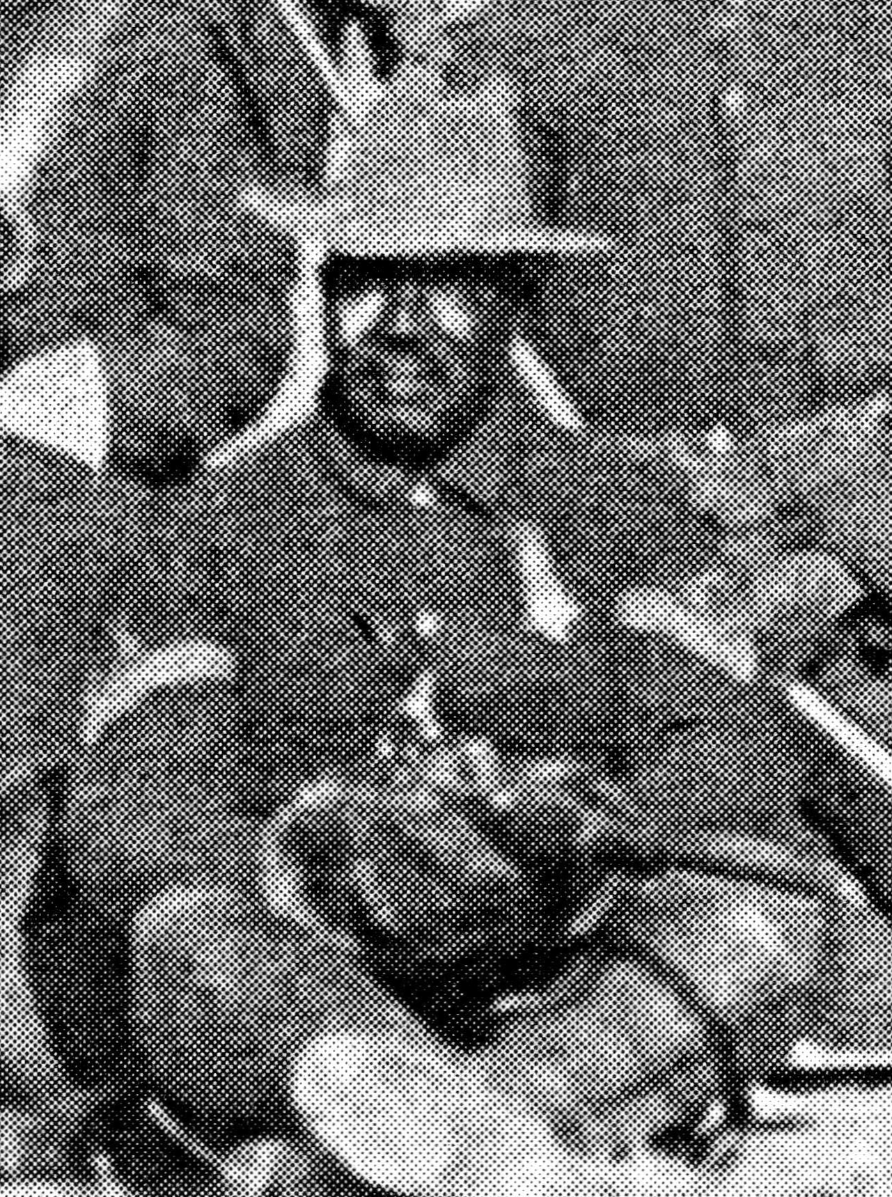 George Jordan of K Troop, 9th Cavalry Regiment, United States Army. Medal of Honor recipient for his actions in the Indian Wars of the western United States.